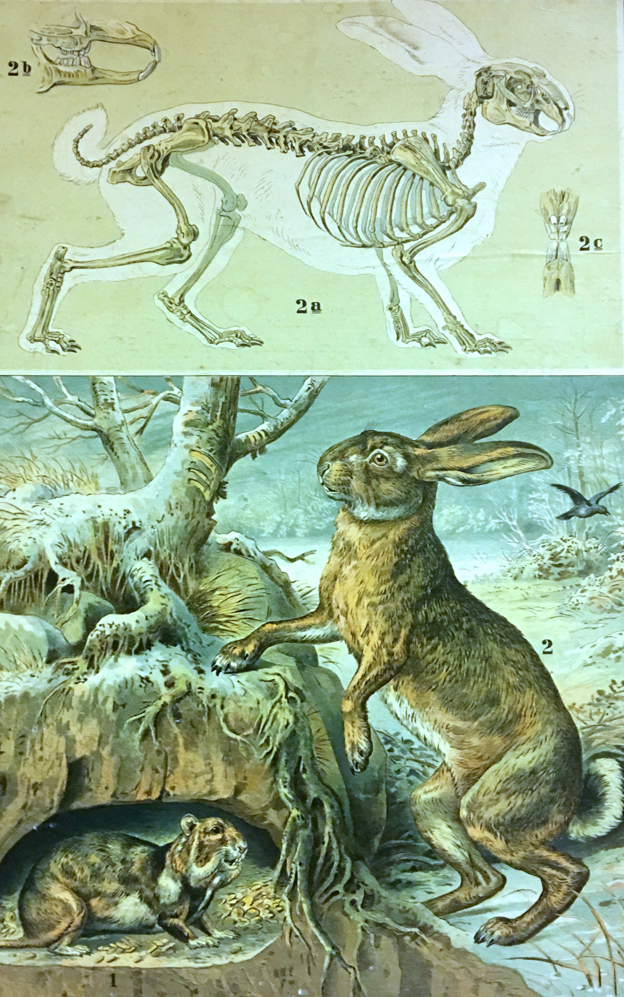 Illustration of rabbit and hamster from old German educational poster "Garten und Feld (Tafel 9): Hamster (Cricetus frumentarius Pall.) Hase (Lepus timidius L.) skeleton" published by Eckstein & Stähle, Kgl. Hofkunstanstalt, Stuttgart